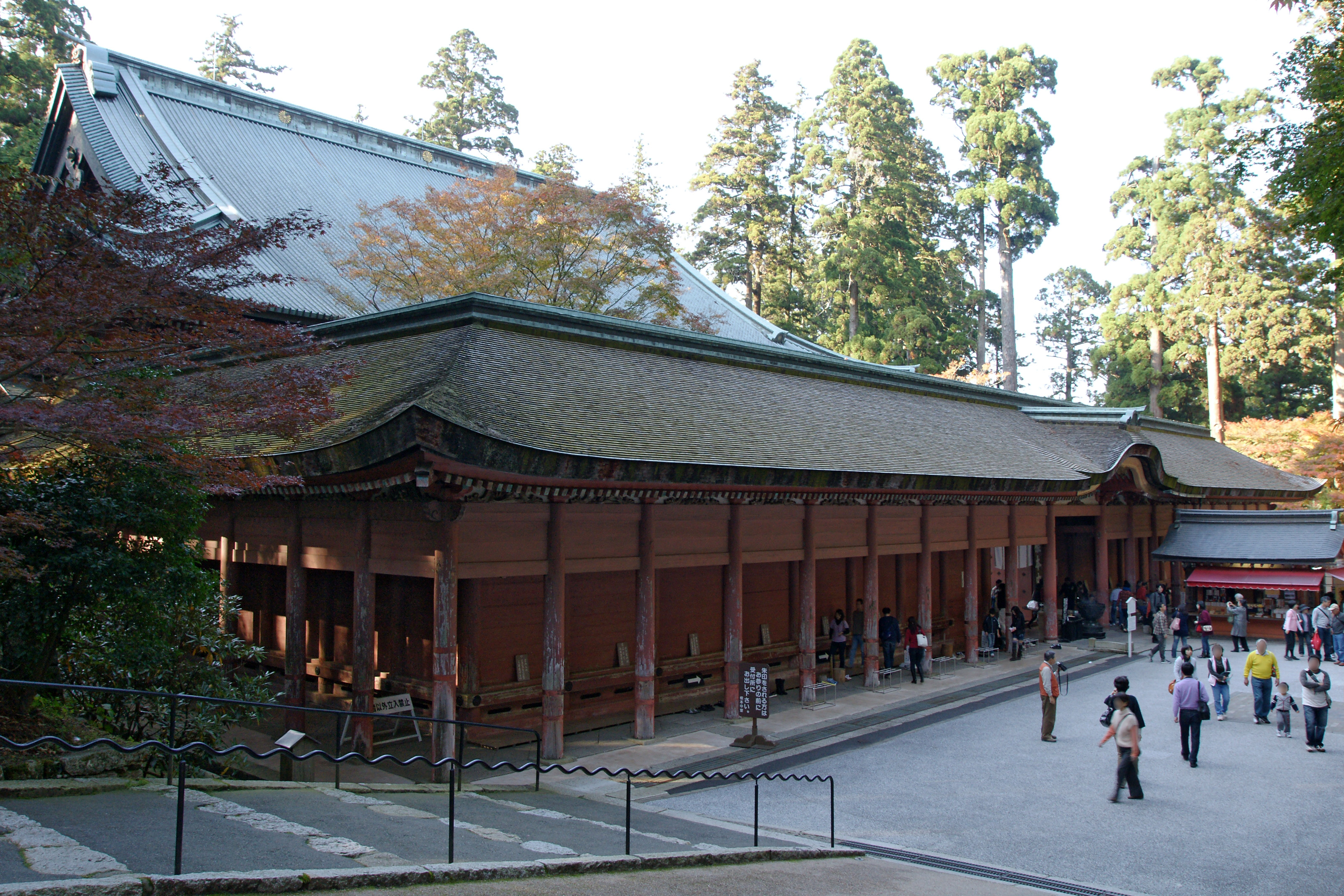 Konponchudo of Enryakuji Buddhist temple (Japan's National Treasure), Otsu, Shiga prefecture, Japan. It was rebuilt in 1642.